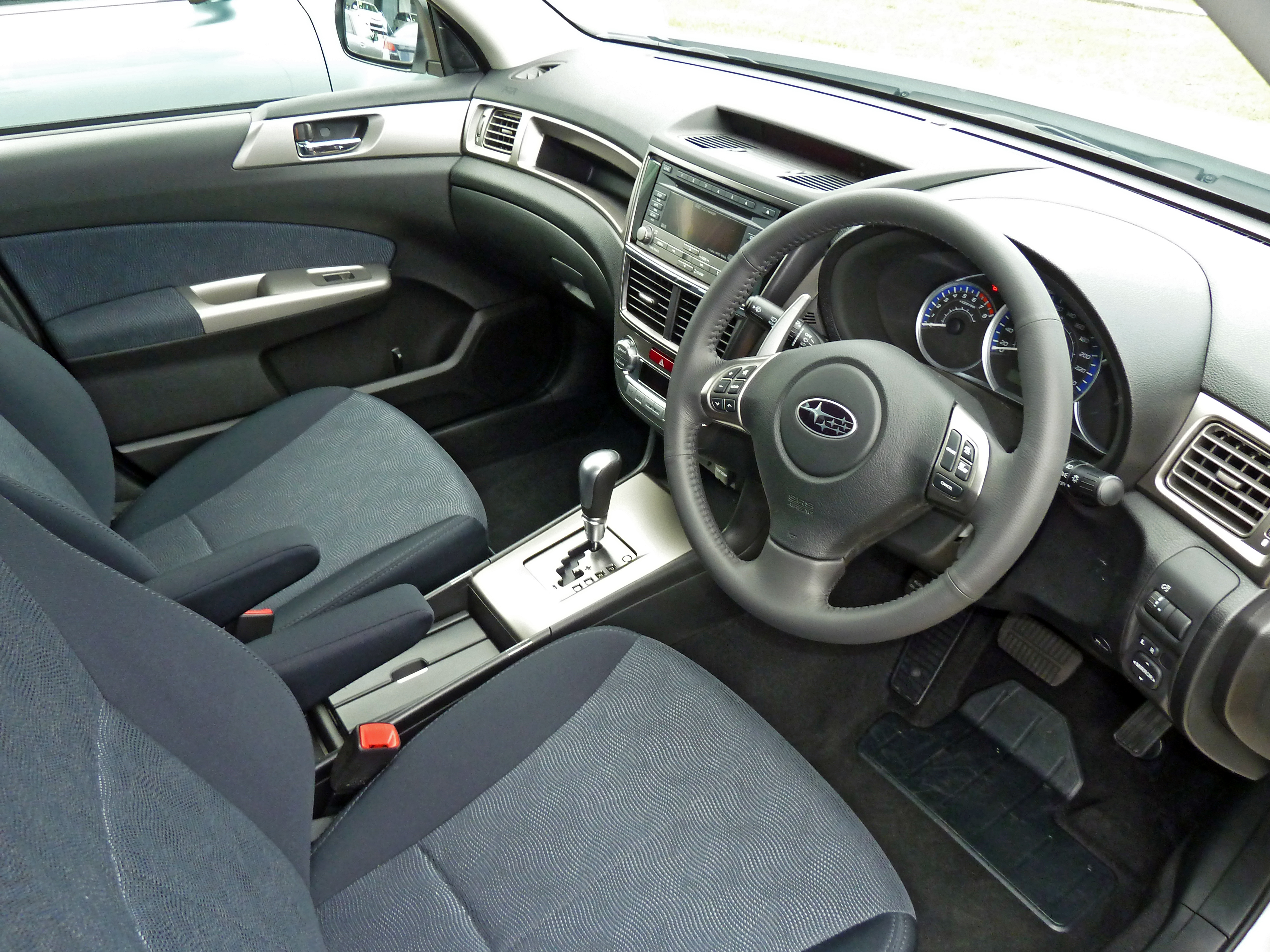 2010 Subaru Liberty Exiga (YA9 MY10) wagon. Photographed at Suttons Subaru, Chullora, New South Wales, Australia.